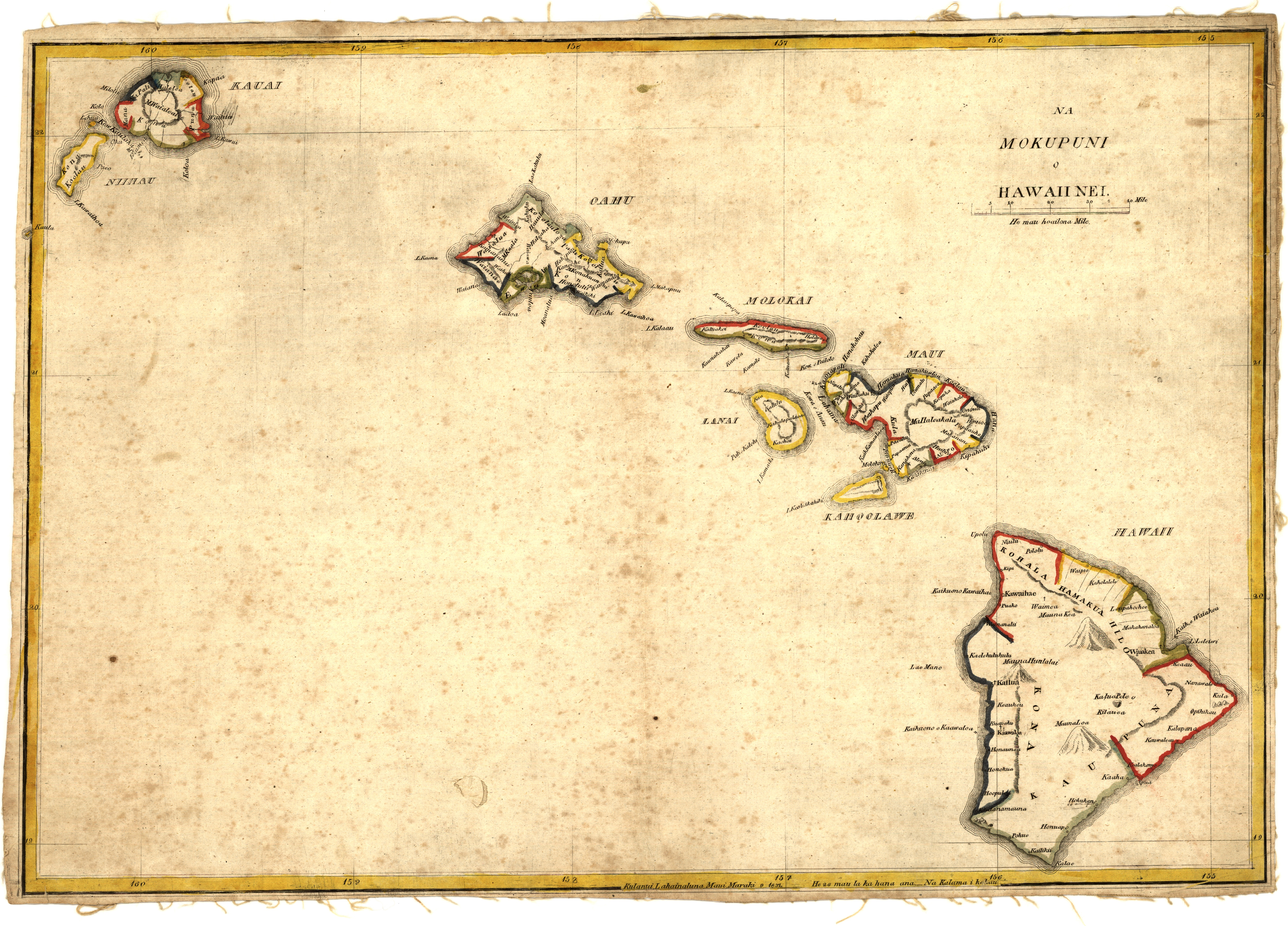 Na Mokupuni O Hawaii Nei. Kulanui Lahainaluna Maui Maraki 9 1837. He 26 mau la ka hana ana. Na Kalama i kakau. Note: This is the first separate map of the Hawaiian Islands published in Hawaii. It was engraved and drawn by Kalama, one of the best student engravers at the Lahainaluna Mission School on Maui, who made the larger 1838 Map of the Hawaiian Islands, of which only two copies are known. This 1837 map probably served as a prototype for the 1838 map. It was the most detailed map yet published, showing many place names on the islands unfamiliar to Cook and Vancouver and not appearing on their maps, exceeded in detail only by the enlarged 1838 edition which added more place names. The first map produced by the press at Lahainaluna, under the guidance of Missionary Lorrin Andrews, was a world map in 1834, followed by five school atlas maps in 1836. In 1840 a small school atlas was completed, followed by a larger school atlas in 1840 and again in1842, primarily copied from Olney's School Atlas (see our #2430 for the 1837 Olney and P3259 and P4087 for "He Mau Palapala Aina A Me Na Niele E Pili Ana," the Hawaiian school atlases). This 1837 map is larger than the atlas maps and was issued as a separate. It is known in only three collections (and was unknown to Fitzpatrick) and is rare. Kalama went on to become one of the best surveyors in the islands. Outline color.[1]